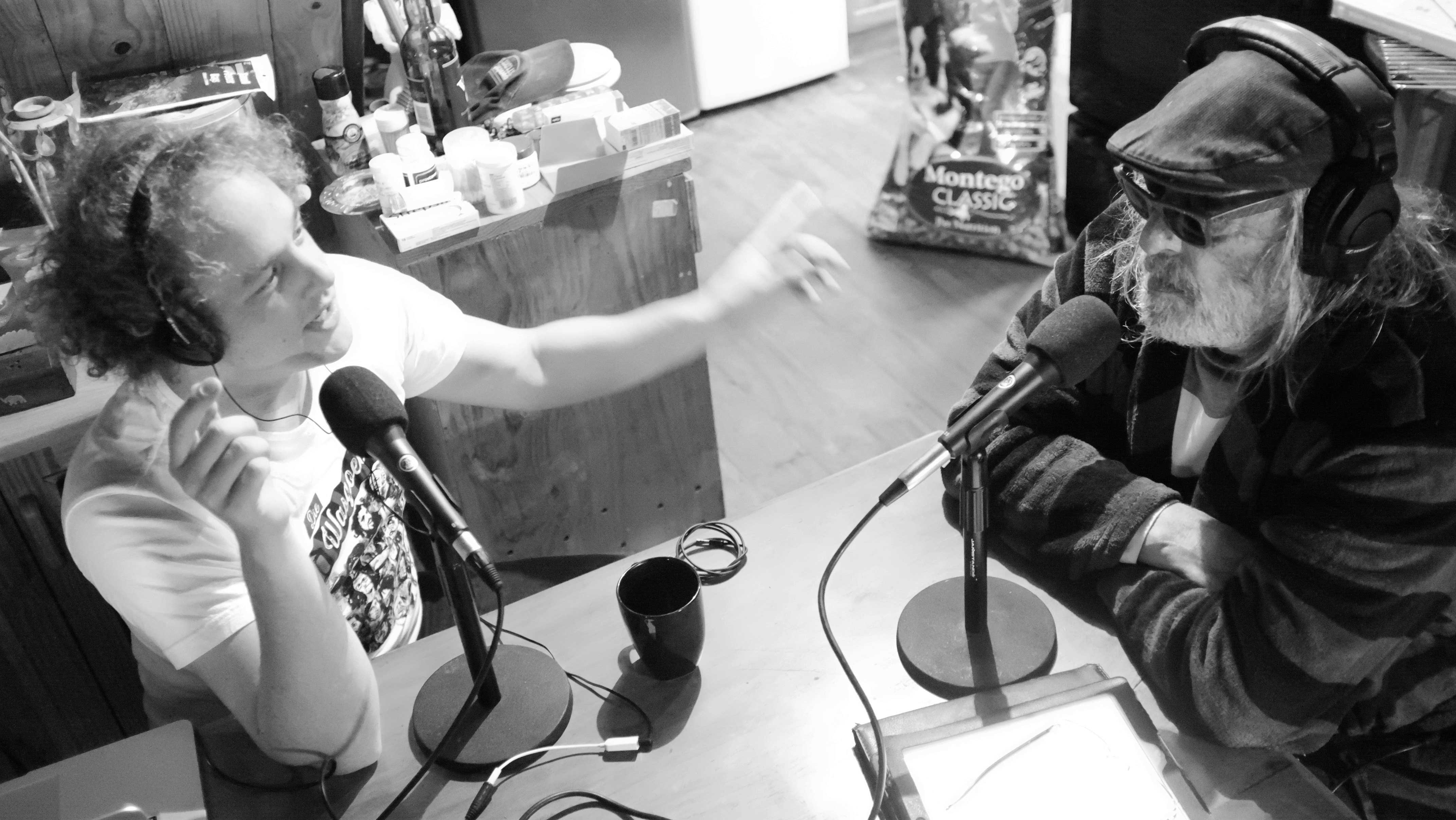 Photo of Willim Welsyn and Anton Goosen during a WAT Podcast interview.